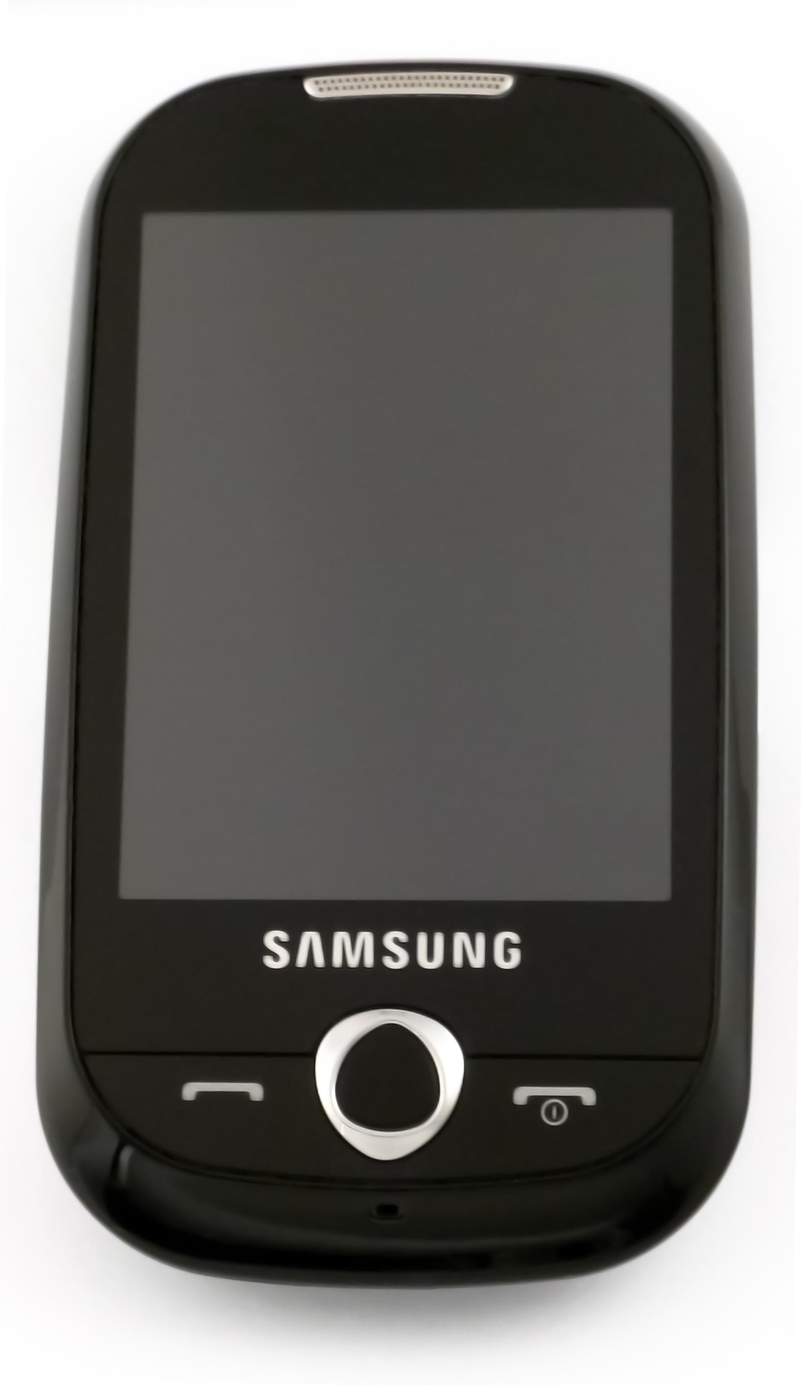 mobile phone, Samsung S3650 Corby